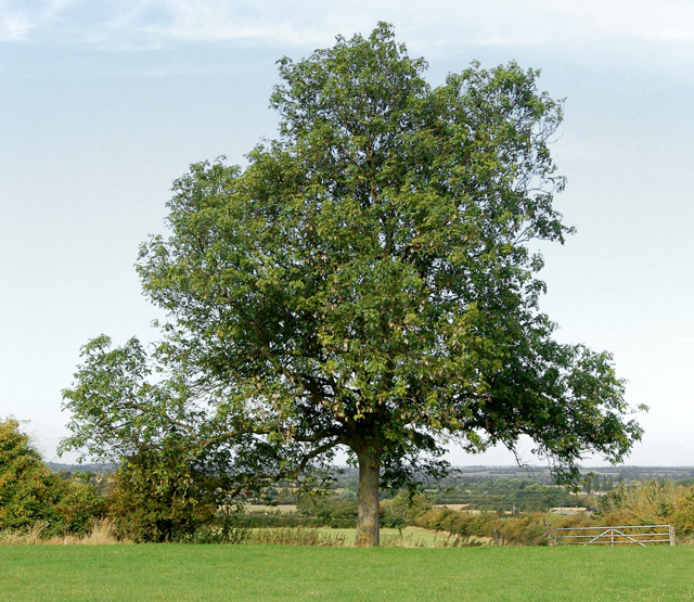 A mature ash tree near Potash Farm